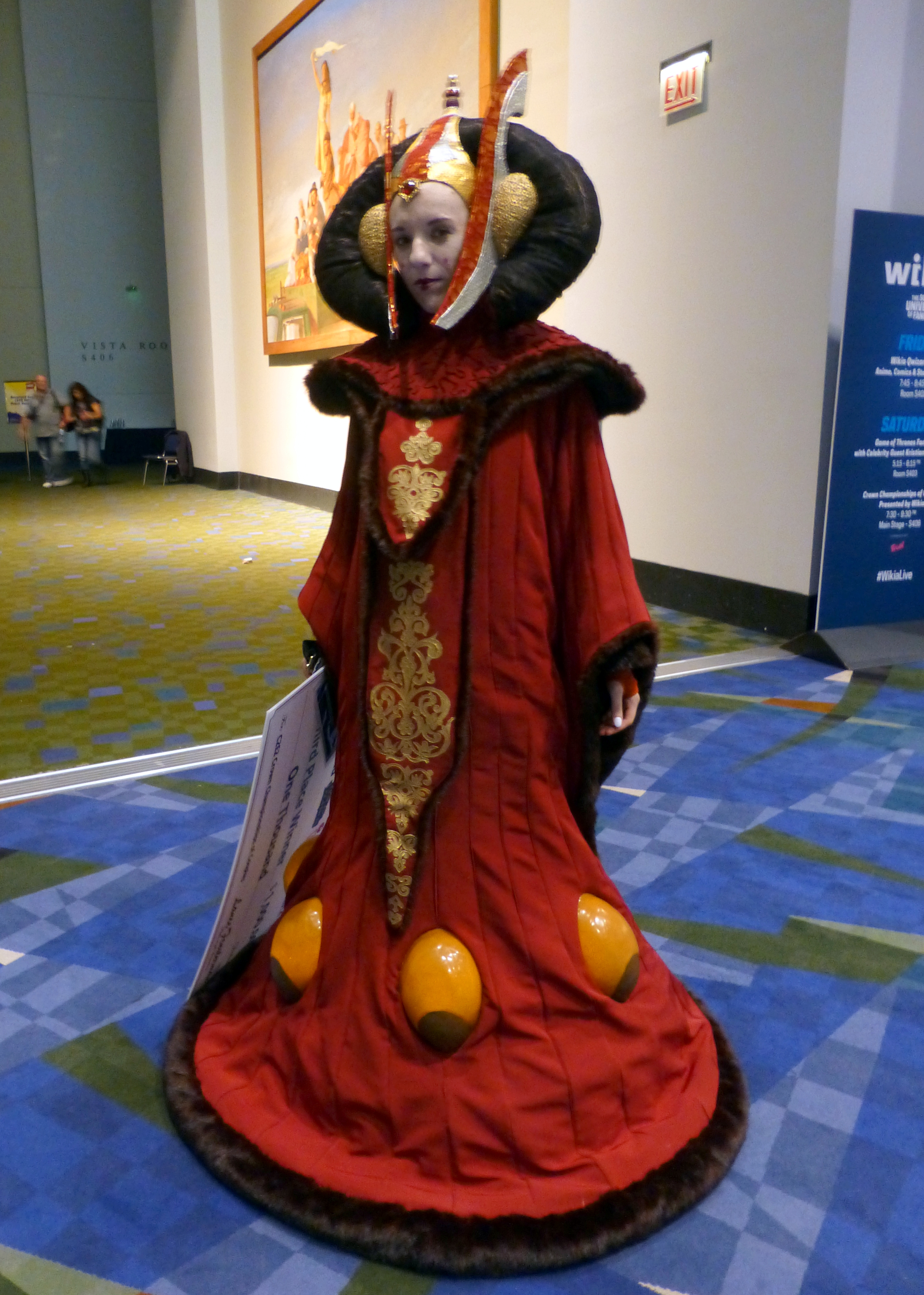 Lisa Hale as Queen Amidala (from Star Wars Episode I: The Phantom Menace) after the First Annual Chicago Comic & Entertainment Expo (C2E2) Crown Championships of Cosplay in 2014. Hale won the TV/movies category and came in third overall, the prize cheque is in her right hand.